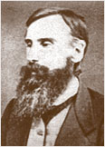 Vasily Bervi-Flerovsky (1829 - 1918)